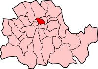 Locator map for the London Metropolitain Borough of Finsbury, of the old County of London.